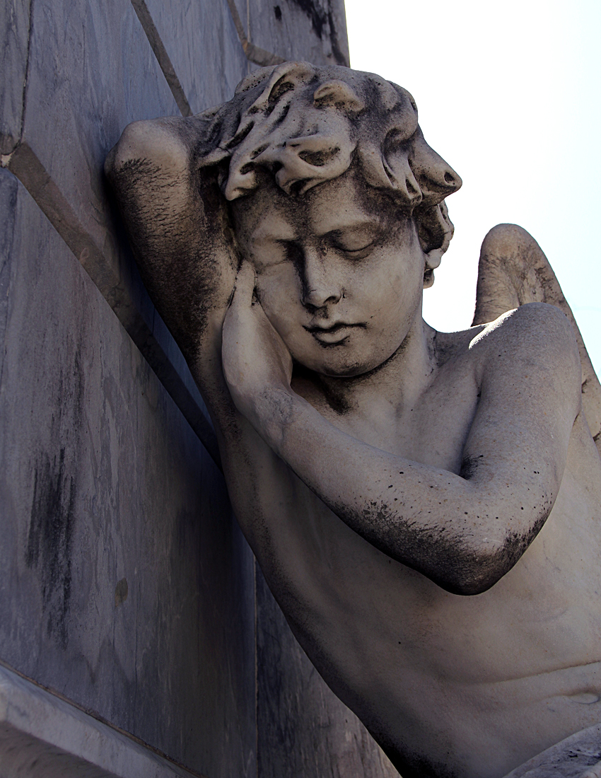 Boy Angel Statue La Recoleta Cemetery 9-7-2011 Buenos Aries Argentina